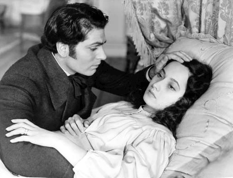 Photo of Sir Laurence Olivier and Merle Oberon from the 1939 film Wuthering Heights.